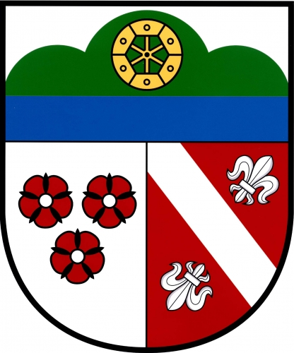 Coat of arms of Nezdice, Plzeň-South District